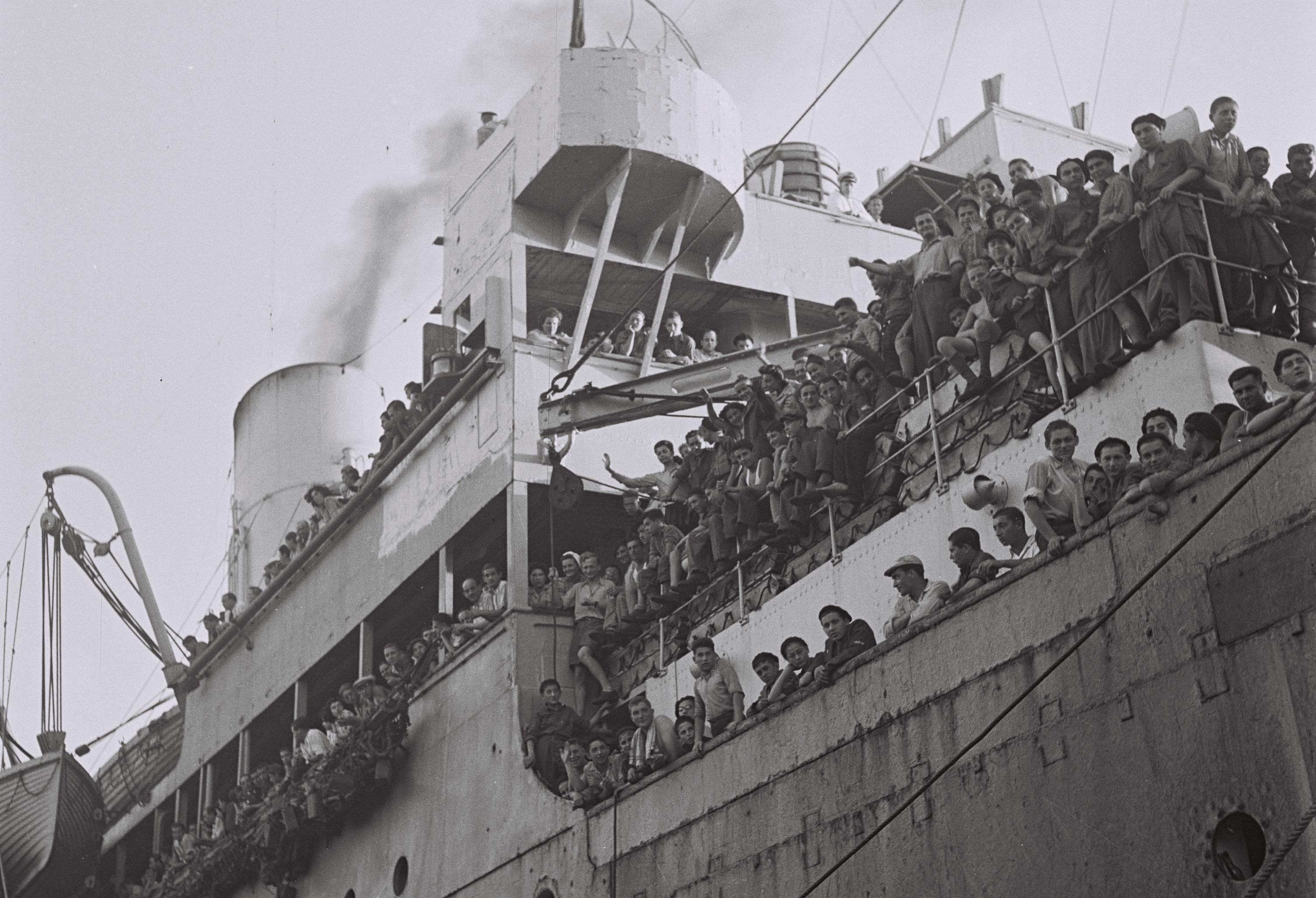 The British ship Mataroa bringing 1,204 refugees from Nazi persecution to port at Haifa